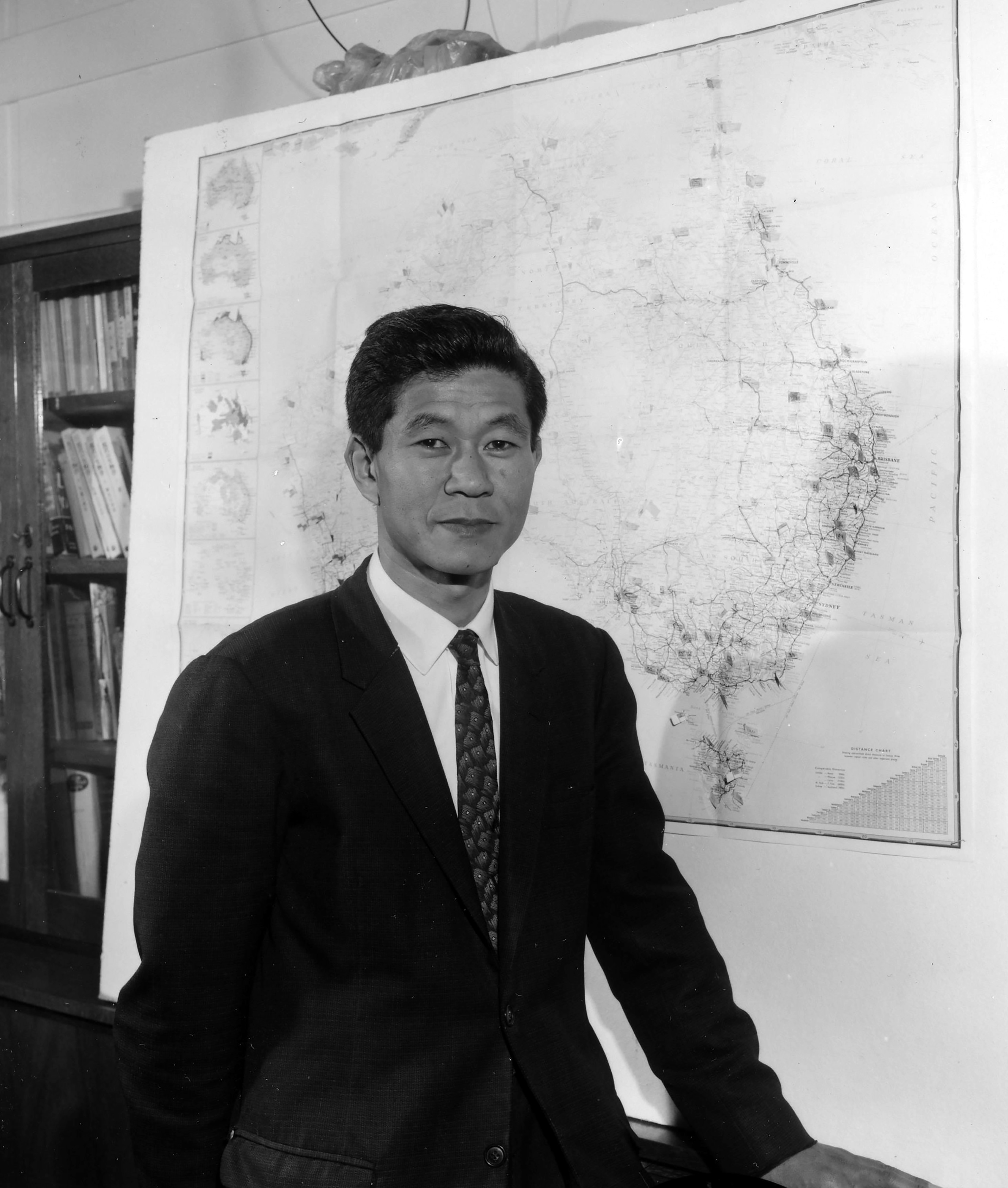 Dr Jiro Kikkawa at The University of Queensland, 1968